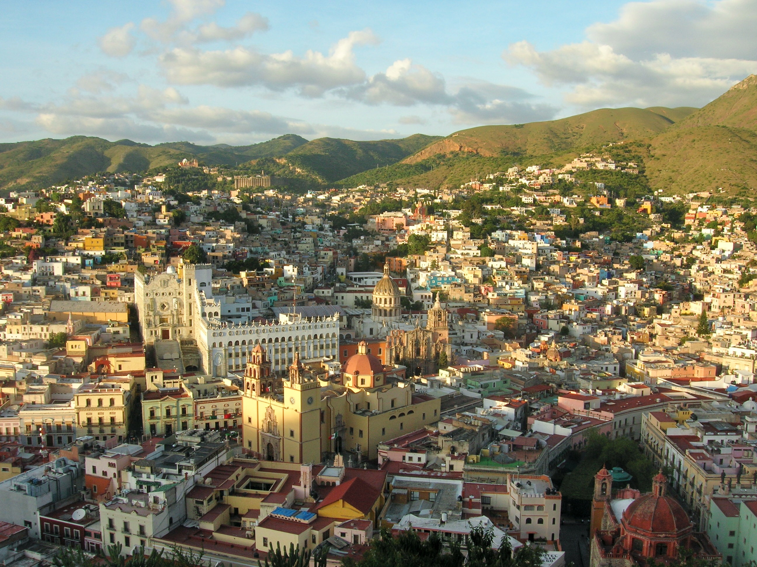 Guanajuato. Sean Carden, I took this photo on Sept. 27th 2005 I release the photo to the public domain